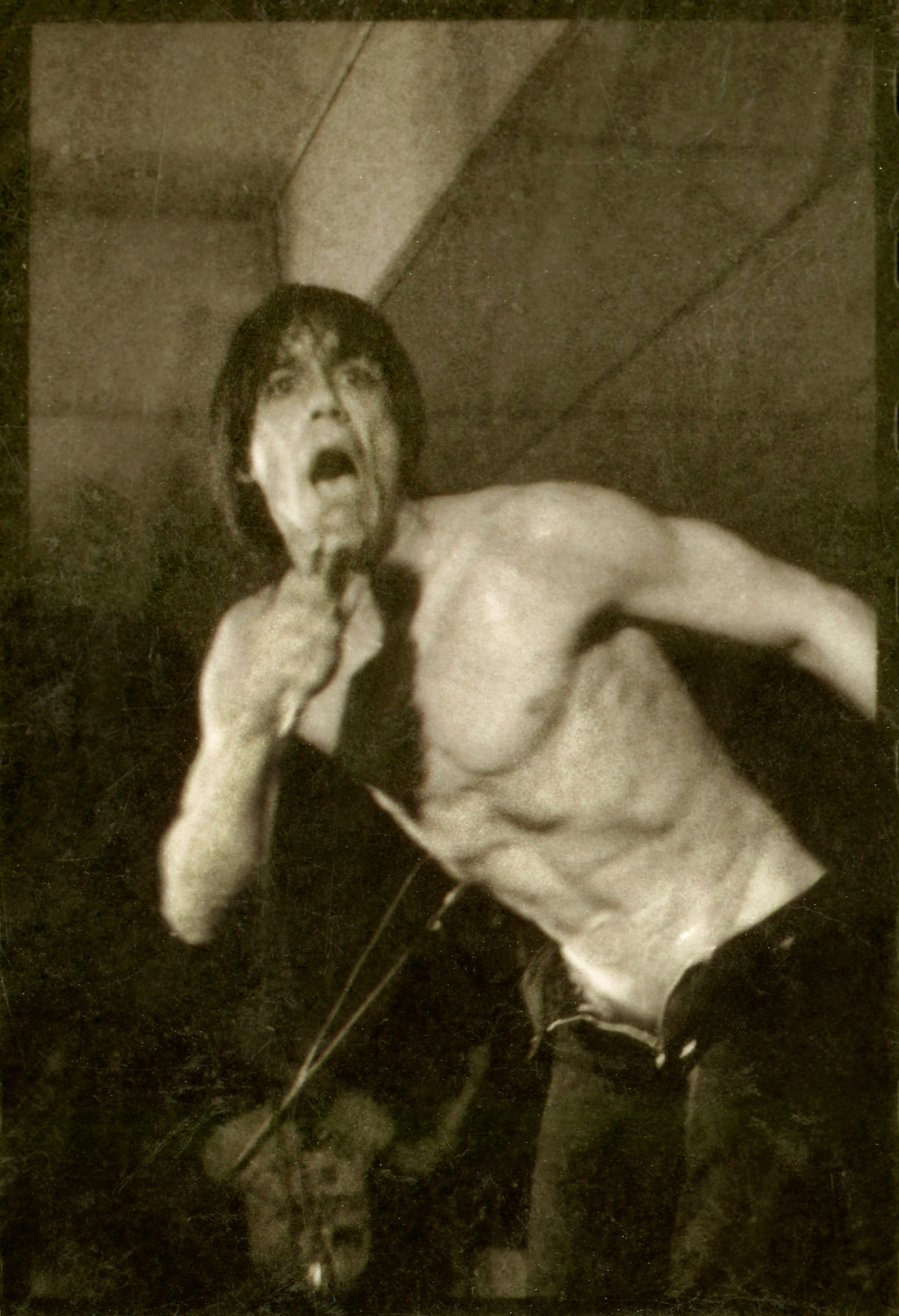 Iggy Pop performing at UC Davis Coffee House 1980, Soldier tour Photo by Robert Toren aka Photo Robert aka Angrylambie